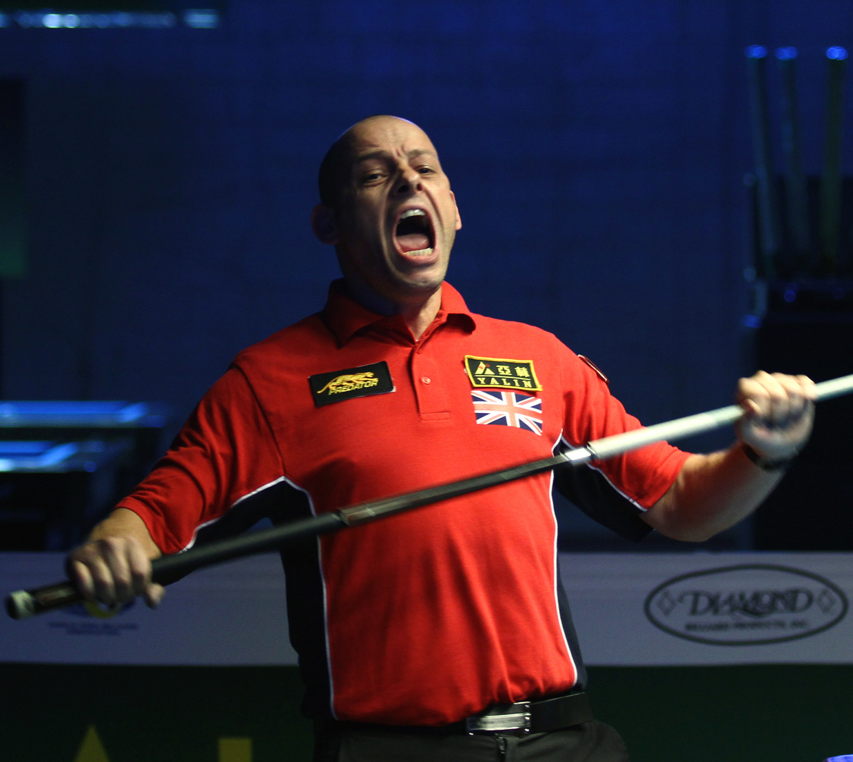 Britain's Darren Appleton exults after winning the World 9-Ball Pool Championship in Doha. Picture by Vinod Divakaran